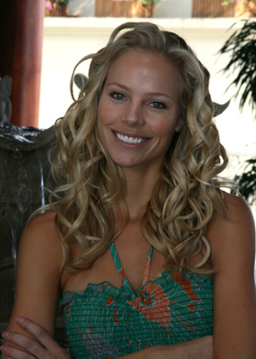 Miss United States 07 Abigail McCary in Miss World 2007, Sanya, China